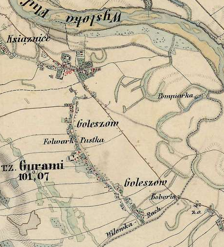 Goleszów on an austrian map from around 1855